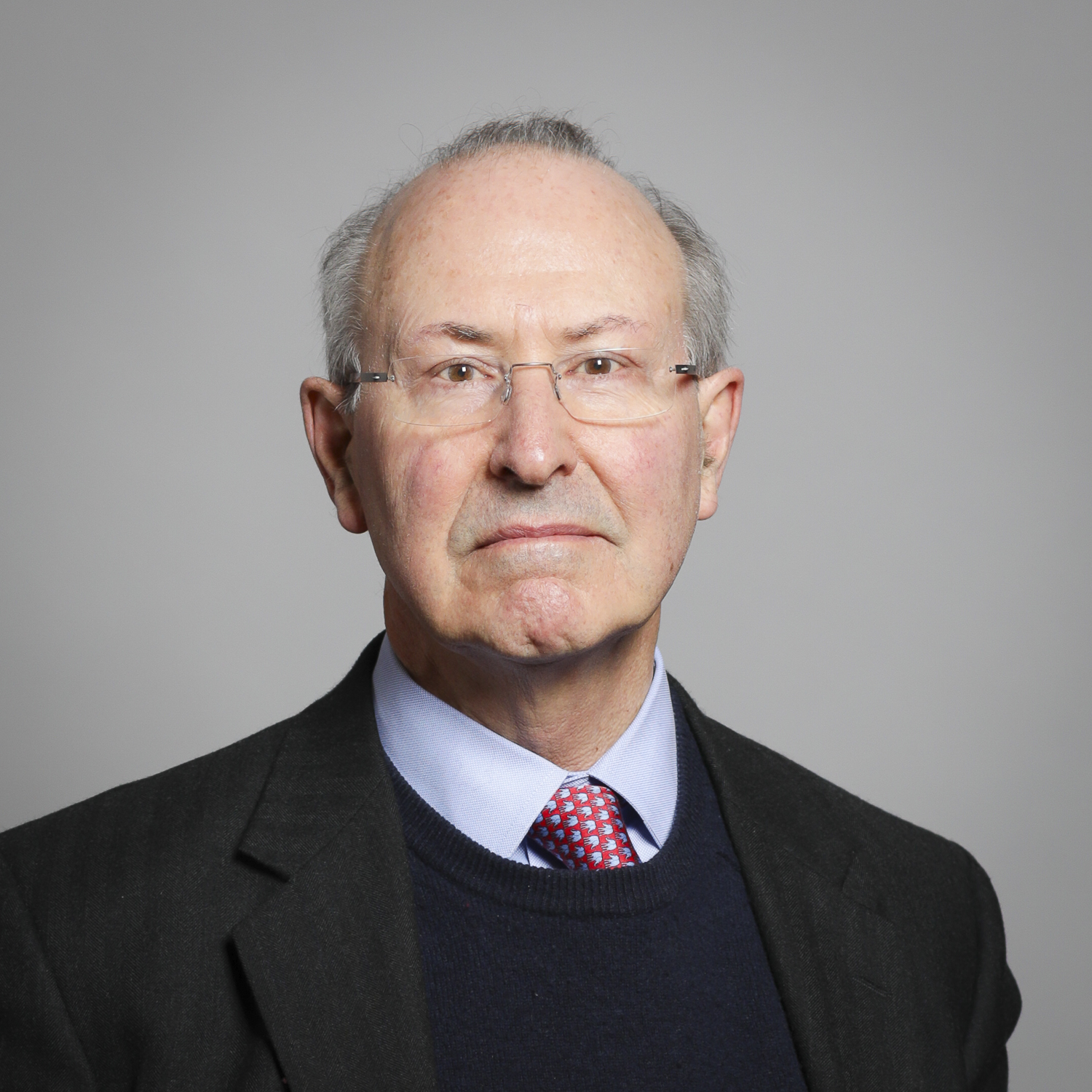 Official portrait of Lord Best 1×1 portrait of Lord Best